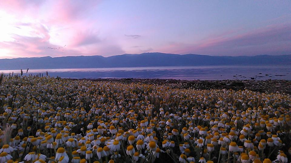 Mt Ida from Pelitköy Seaside